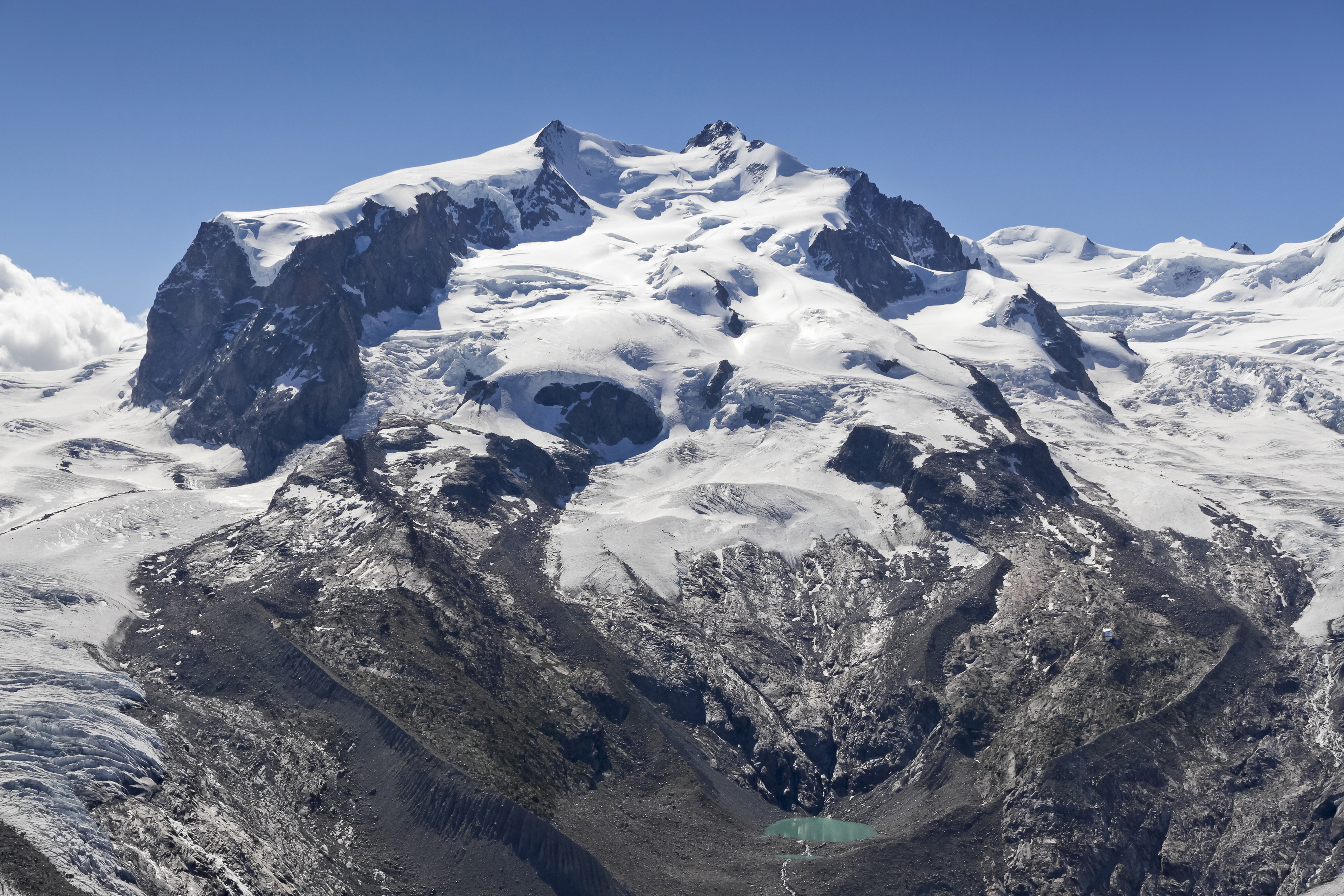 Dufourspitze (Monte Rosa) and Monte Rosa Glacier as seen from Gornergrat in Wallis, Switzerland in 2012 August.